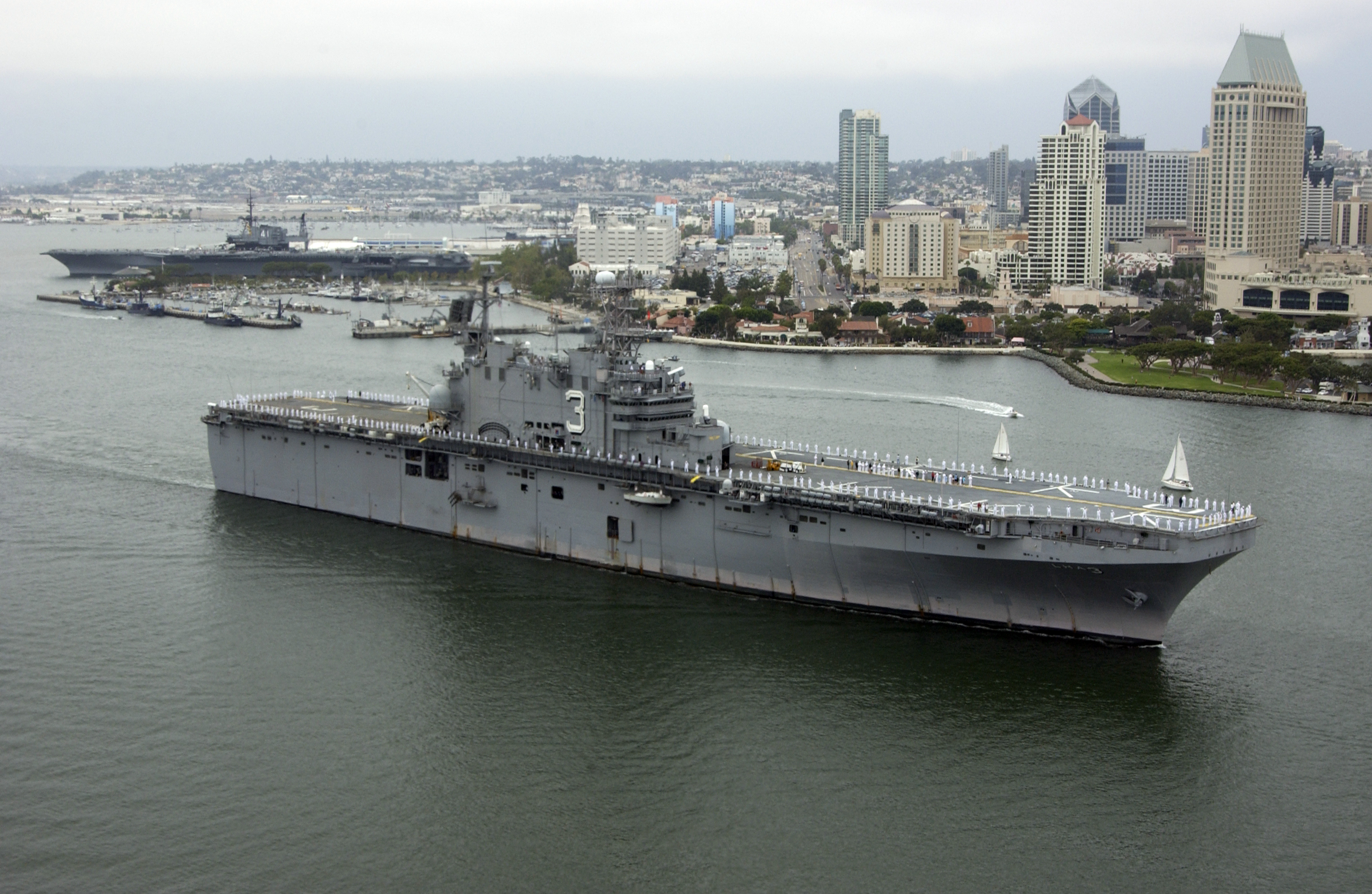 San Diego (July 11, 2005) – The amphibious assault ship USS Belleau Wood (LHA 3) Sailors “man the rails” for the final time as they sail through San Diego Harbor completing her final voyage after 27 years of service as a U.S. Navy ship. Belleau Wood was commissioned Sept. 23, 1978 and has participated in numerous humanitarian and wartime missions, exemplifying the strength and capabilities of the Navy-Marine Corps team. Belleau Wood will be the first Tarawa Class amphibious assault ship to be decommissioned to make way for the LHA(R) amphibious class ship, expected in 2013. Belleau Wood is scheduled to be decommissioned on Oct. 13, 2005. U.S. Navy photo by Photographer’s Mate 2nd Class Daniel R. Mennuto (RELEASED)